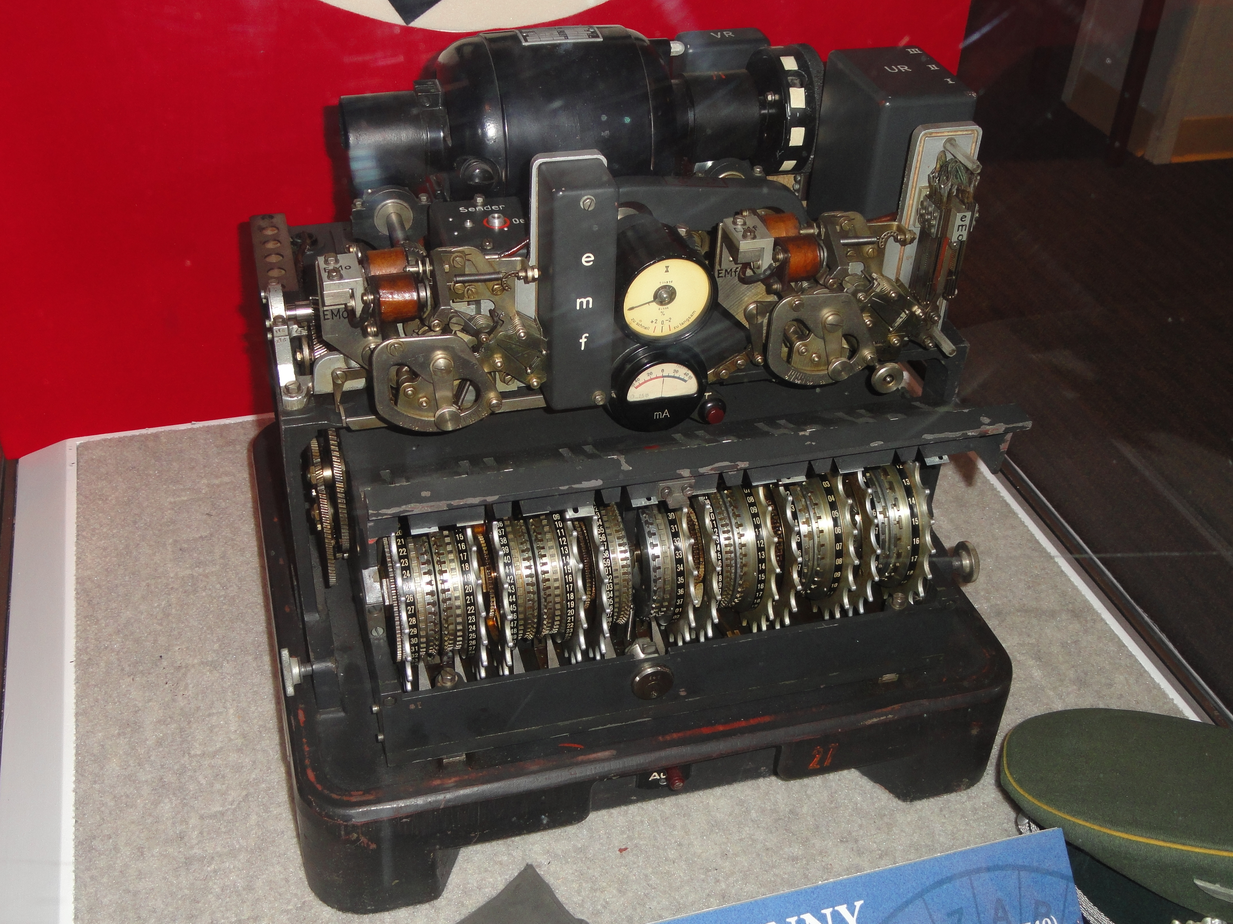 Exhibit in the National Cryptologic Museum, Fort Meade, Maryland, USA. All items in this museum are unclassified; items created by the United States Government are not subject to copyright restrictions.